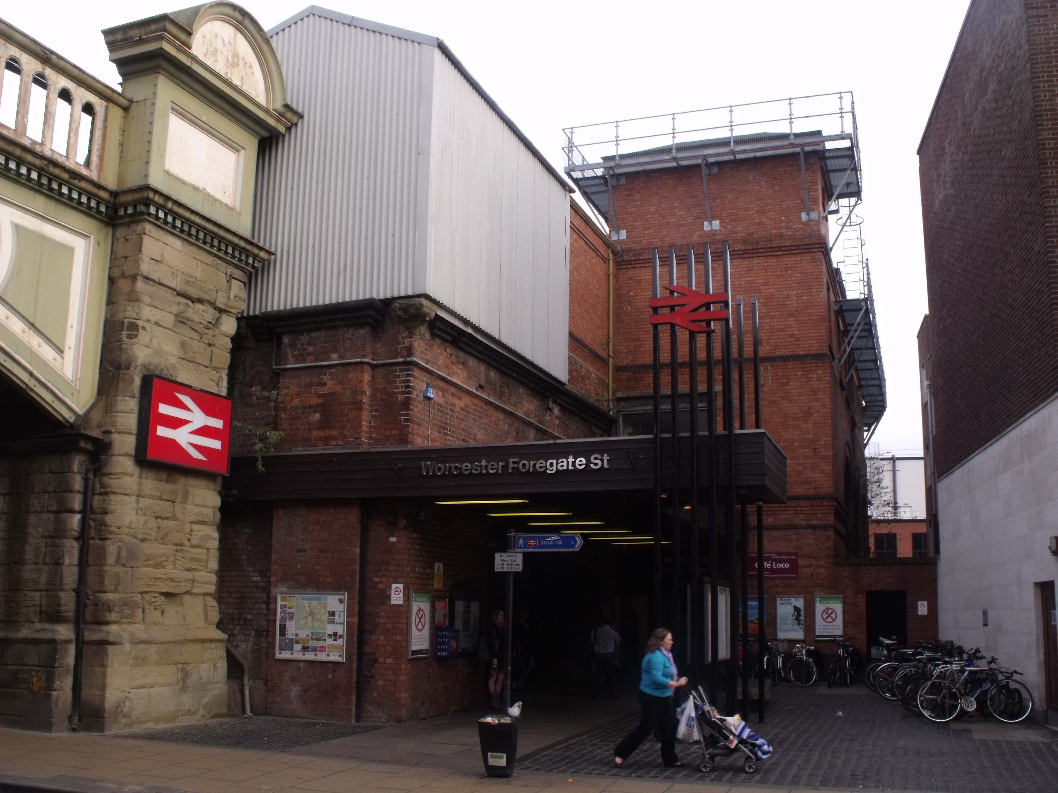 This is Worcester Foregate Street Station on Foregate Street in Worcester. It is near an Odeon cinema, a Gala Casino and the Museum & Art Gallery. The station building from Foregate Street. It isn't much, but then it is a small station. Two of those British Rail signs.